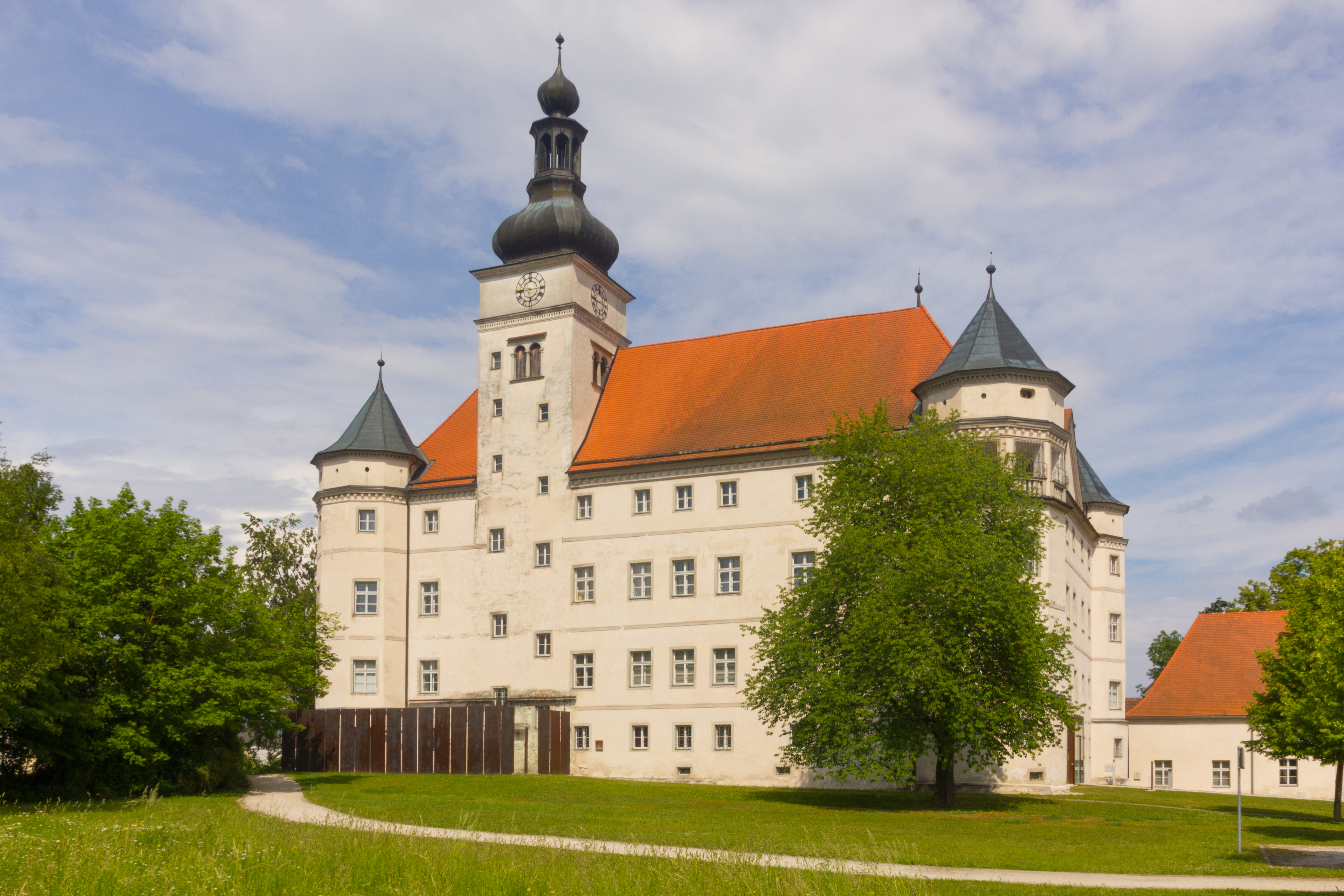 The western side of Hartheim Castle.